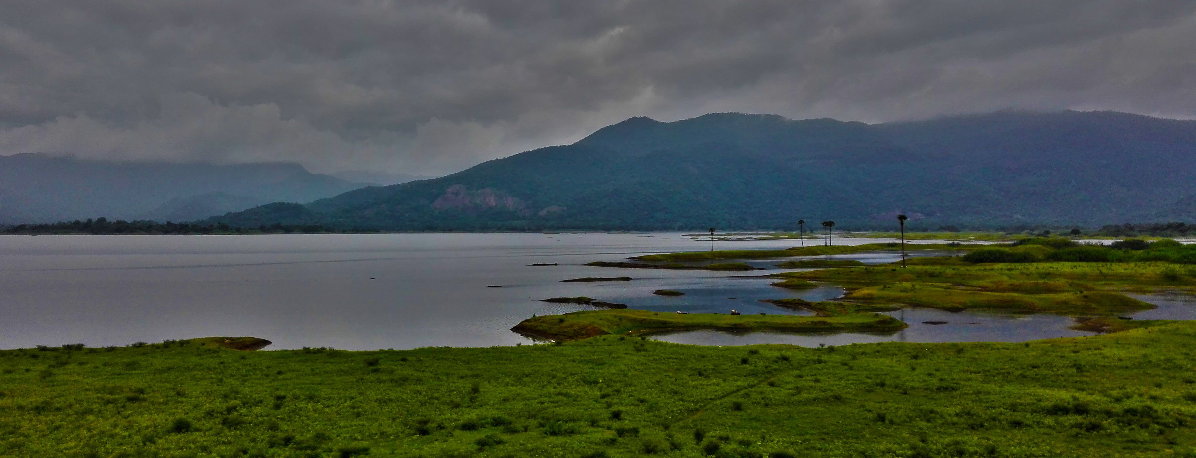 Raiwada Reservoir is located in Devarapalle mandal, 58km from Visakhapatnam. It is one of the main water sources for Visakhapatnam city